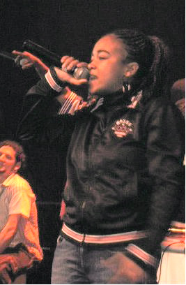 Arianna Puello (formerly known as Ari) is a Spanish mc, this picture was taken at a concert in February 2005 in Madrid.